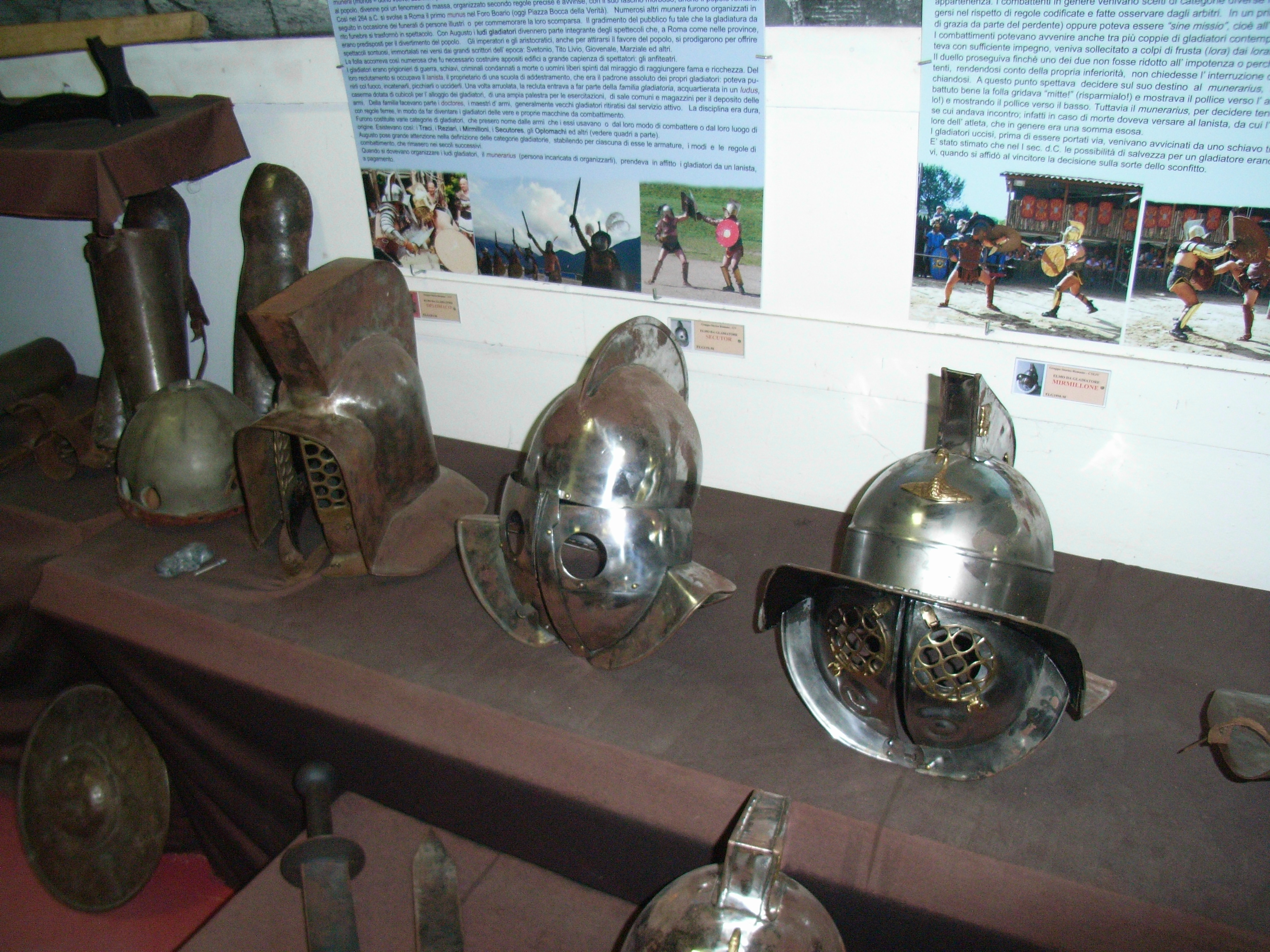 Gladiator helmets Photograph taken with permission at Museo Gruppo Storico Romano Museum in Rome